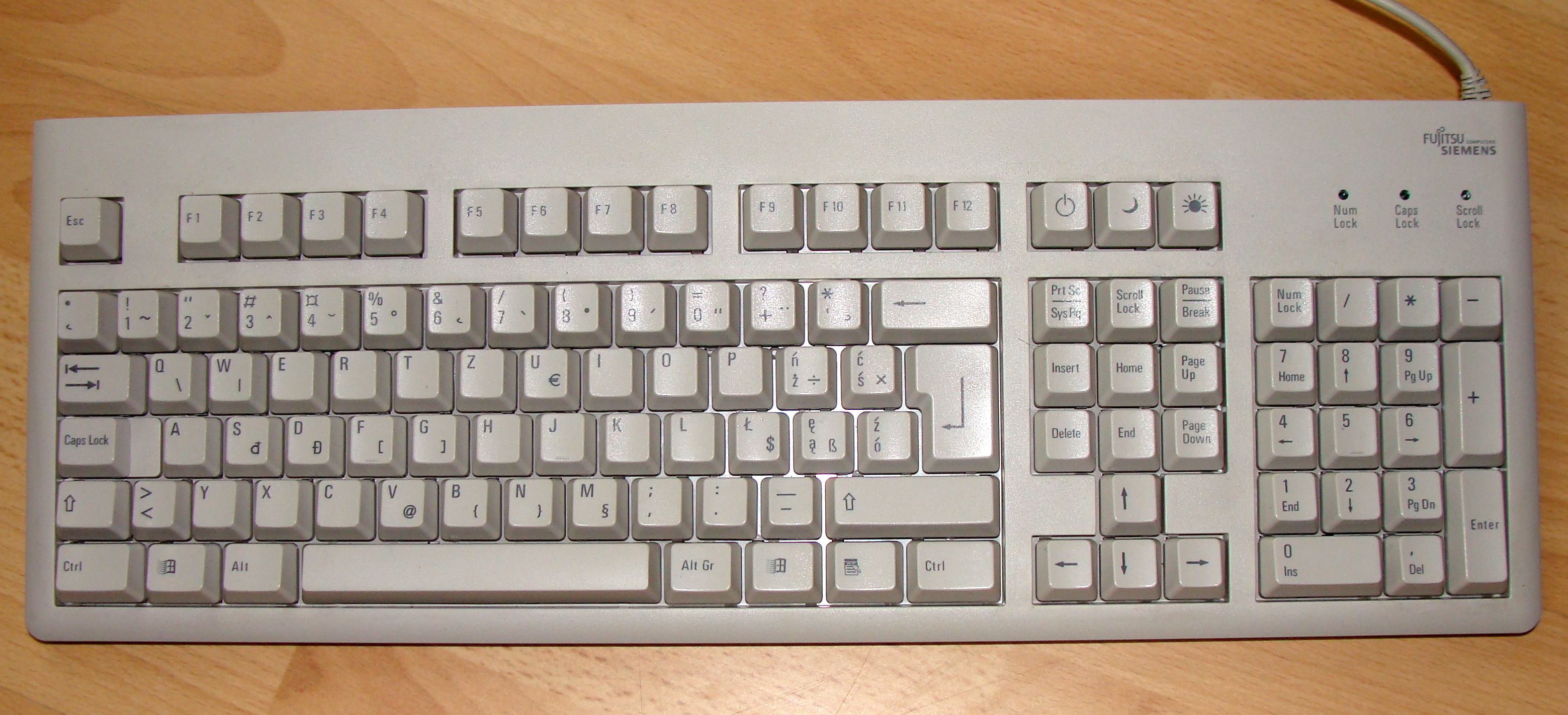 Computer keyboard with "Polish 214" layout.